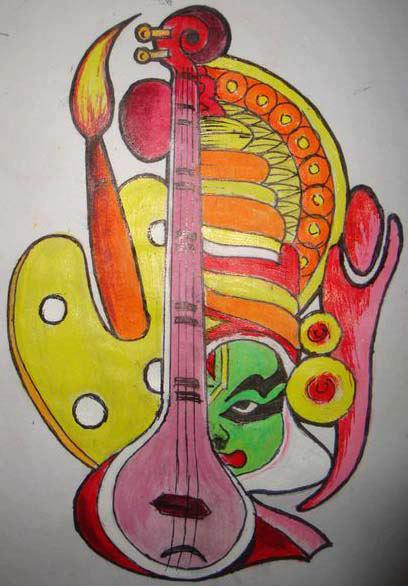 2012 Logo of RITs cultural festival Keli.